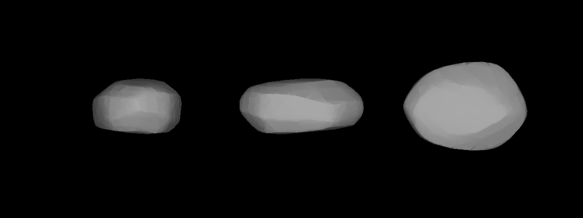 A three-dimensional model of 699 Hela that was computed using light curve inversion techniques.